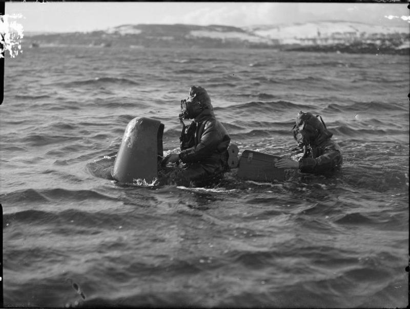 The Royal Navy during the Second World War A chariot (sometime known as a human torpedo) craft underway at Rothesay being ridden by two men in full diving suits.